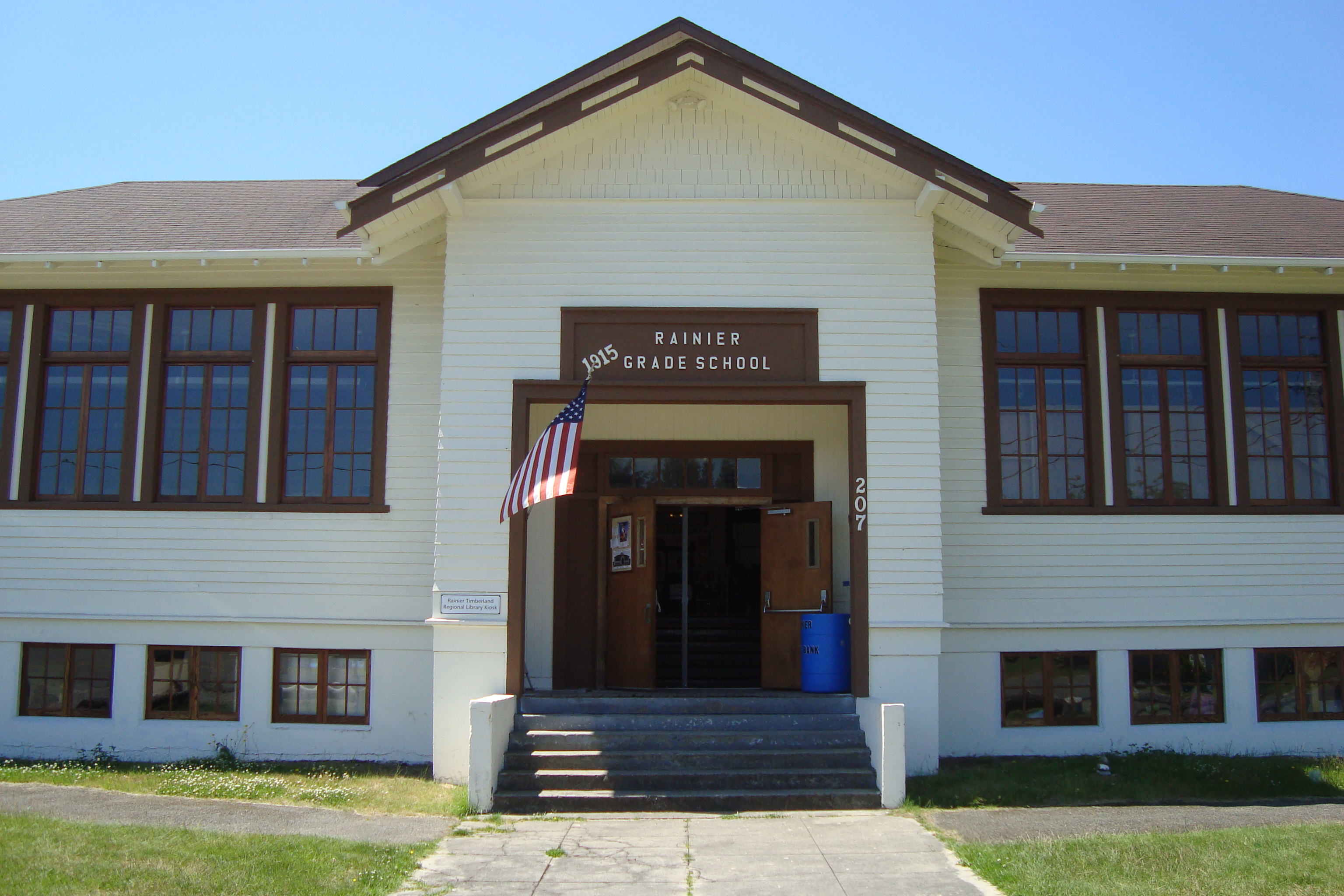 This is the old schoolhouse in Rainier, Washington, built in 1915; it is now being used as the Lifelong Learning Center by the Rainier Historical Society.